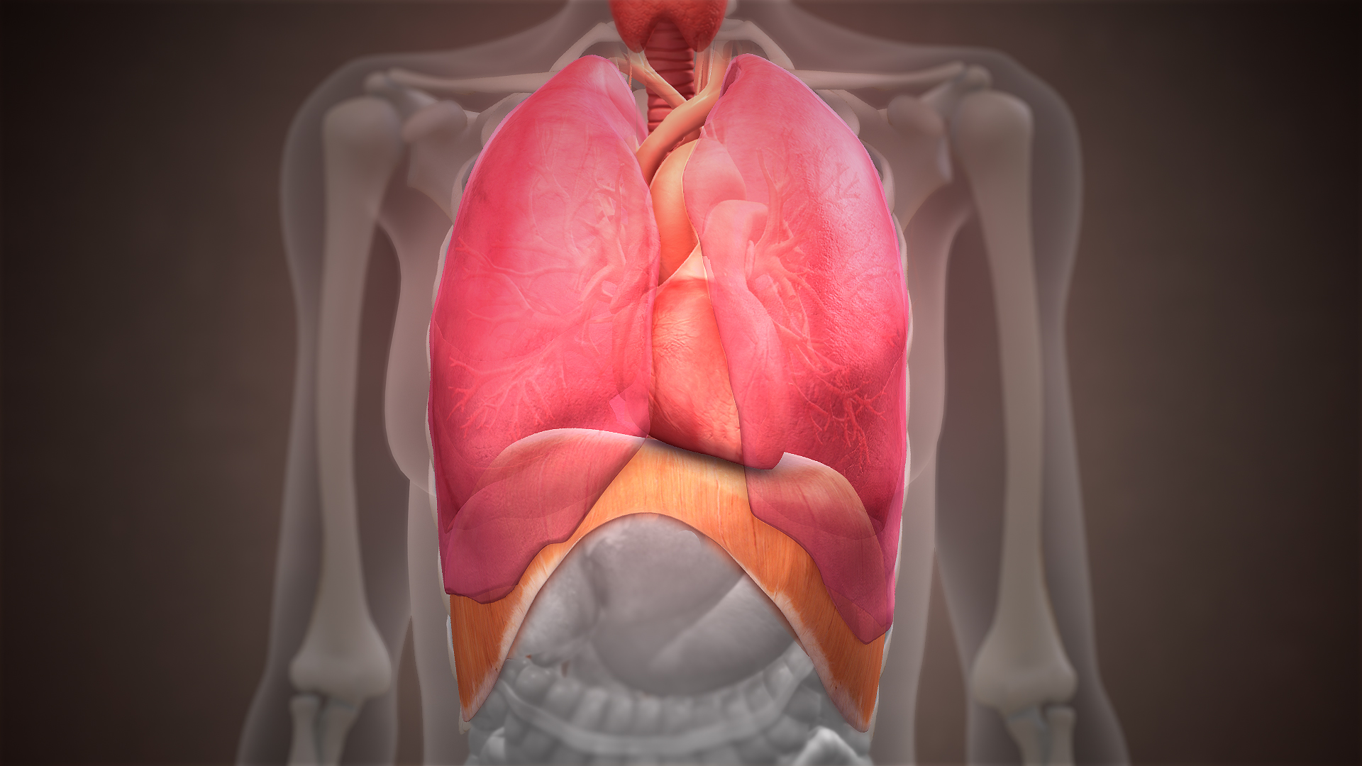 A 3D medical illustration showing structure of diaphragm and how it supports heart and lungs.